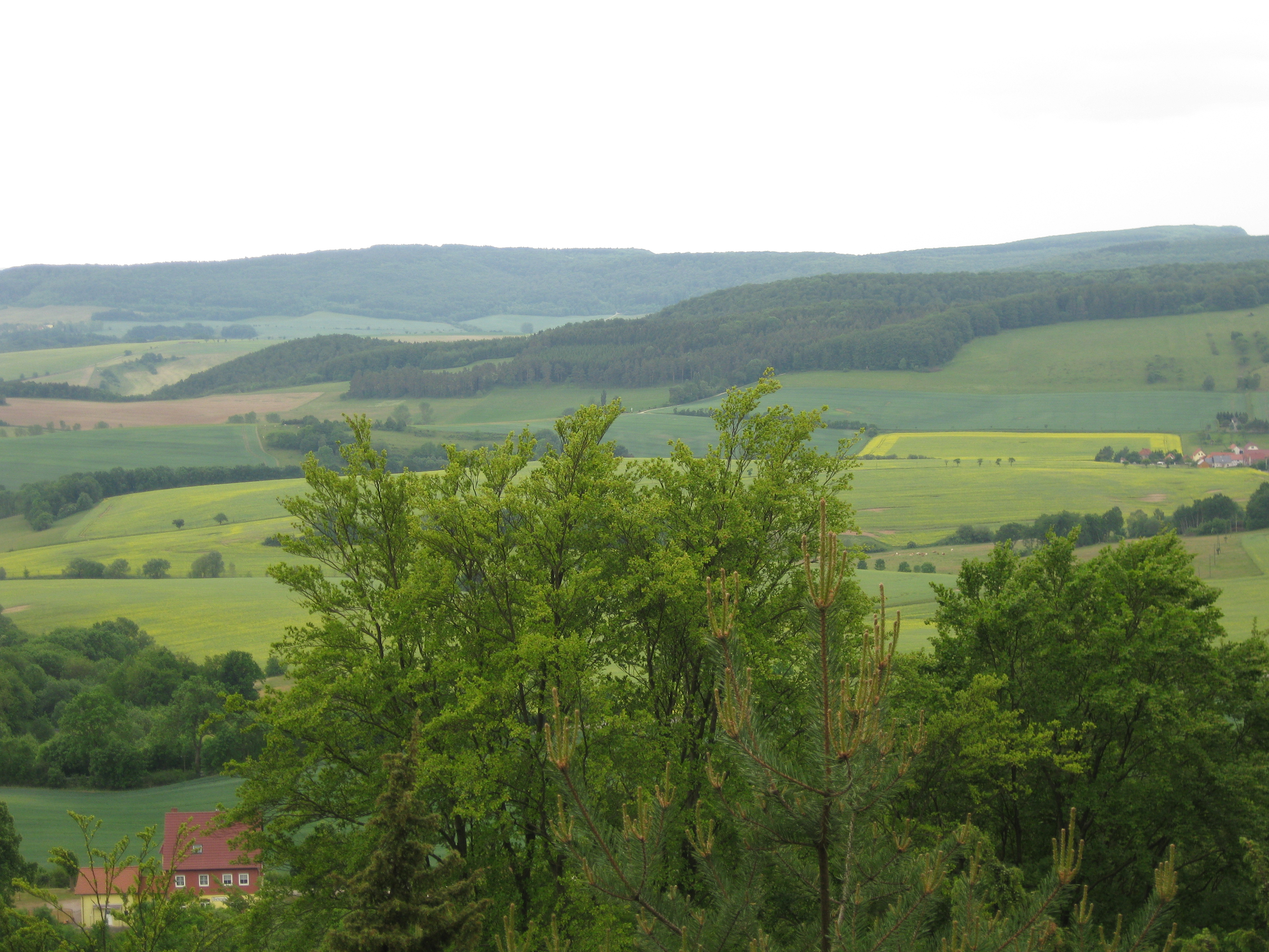 Gobert with Schlittstein